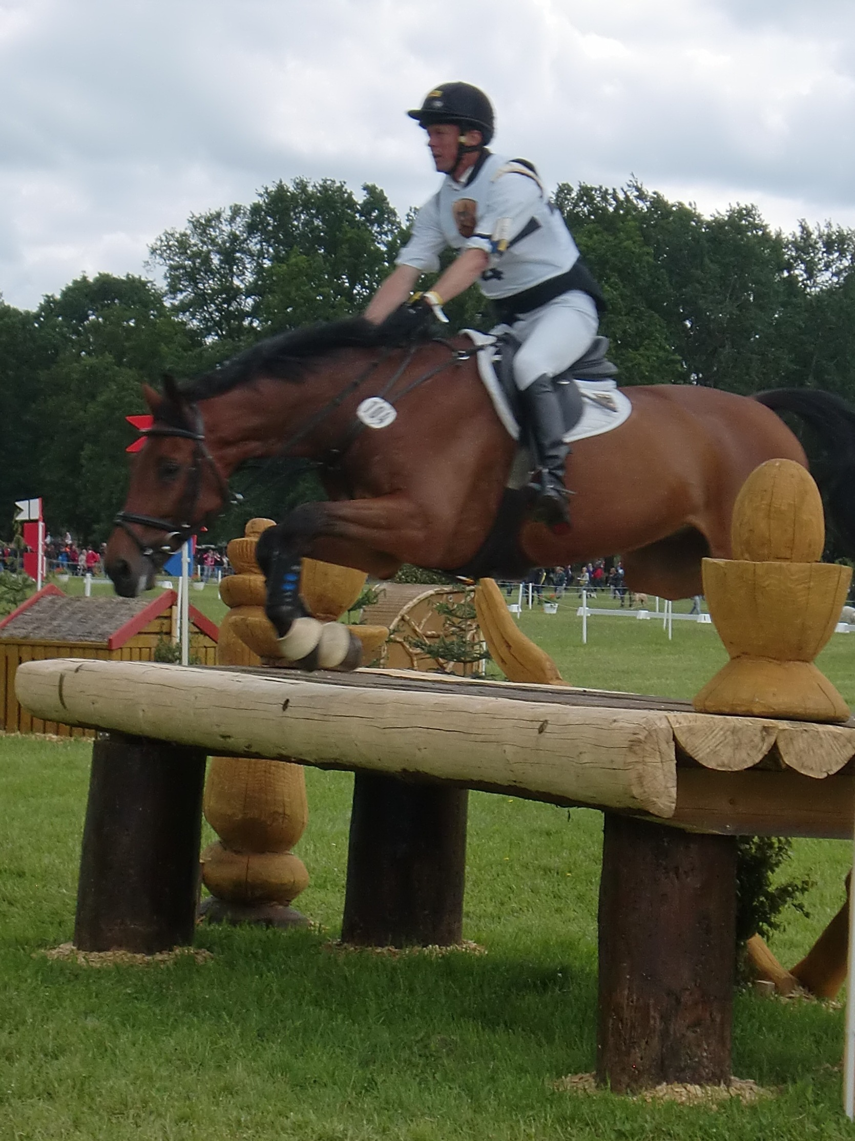 Peter Thomsen and St. Daniel, CIC*** (after the CCI****) Luhmühlen 2010, Germany, fence 2 (Joules picnic table)